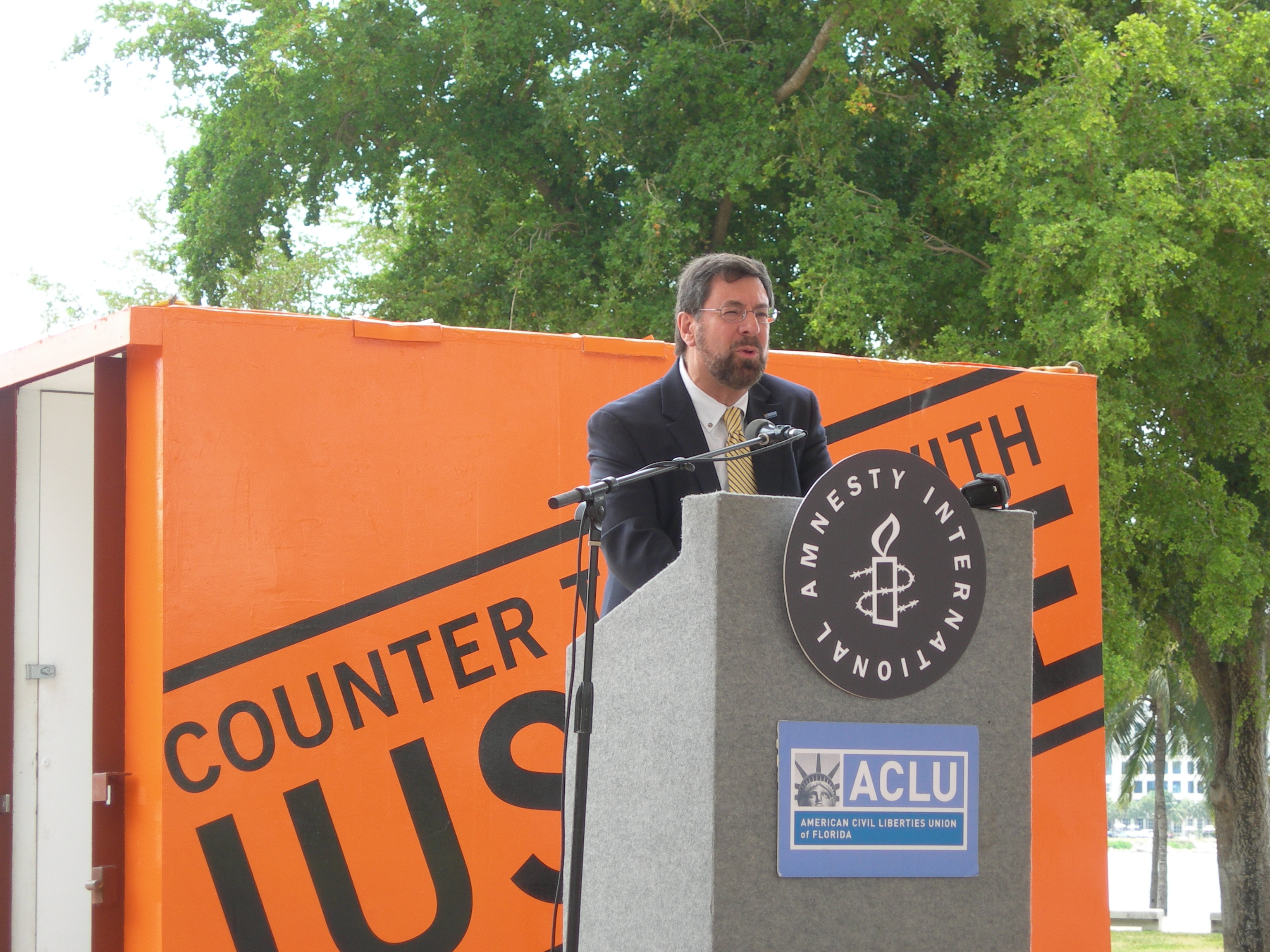 Howard Simon, ACLU of Florida Executive Director, taken at Amnesty International protest in Miami, May, 2008.